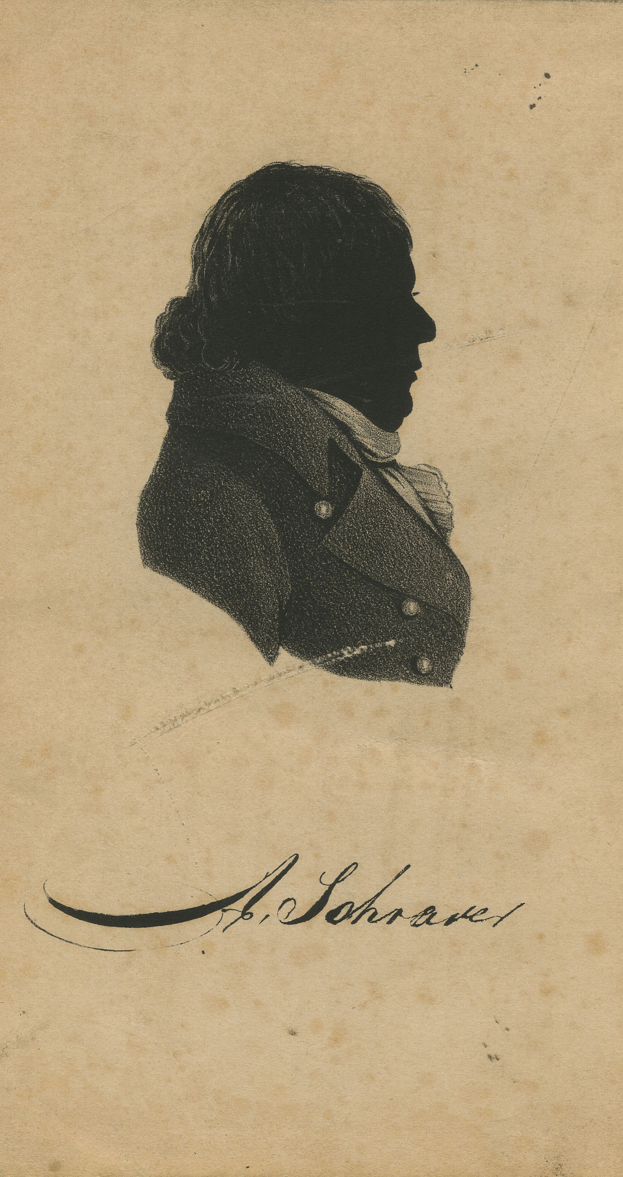 Andries Schraver (Brouwershaven February 27, 1754 - 1826). Midshipman under Admiral Van Kinsbergen, bricklayer in Oosterland, 1788 supervisor of the admiralty buildings in Zijpe, 1795 representative of the province of Zeeland, 1796 deputy commission van Schouwen and inspector at the Zeeland Waterstaat, 1807 engineer at Rijkswaterstaat, 1811 appointed engineer and chef, retired in 1824. Silhouette, published in the Zeeland Volksalmanak